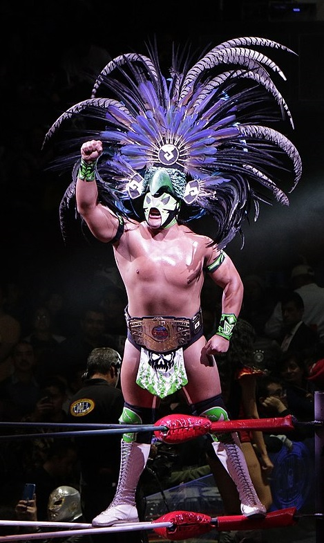 masked wrestler Gran Guerrero wearing his entrance gear and the CMLL World Trios Championship belt